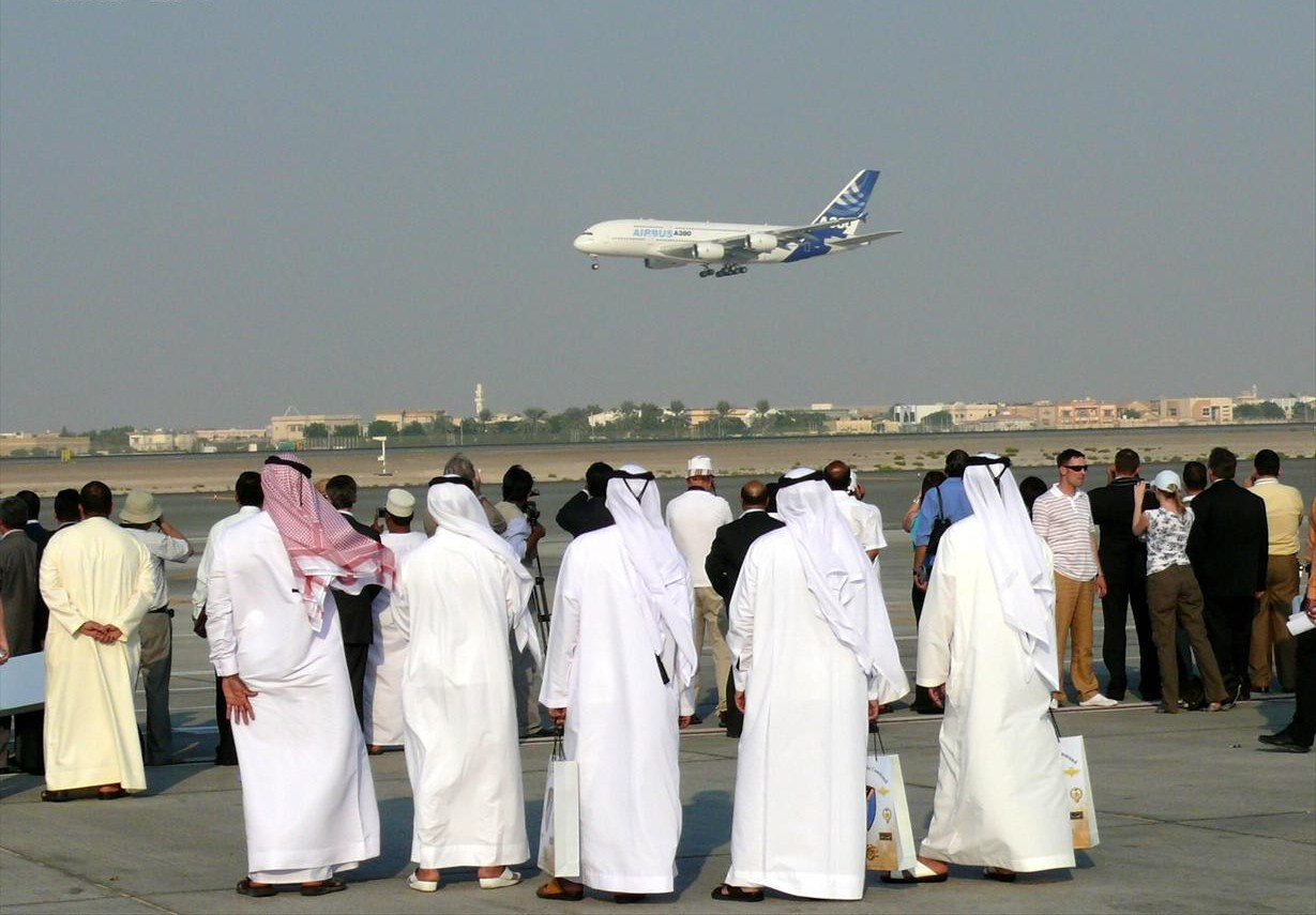 This is a photo of the Airbus A380 landing at Dubai International Airport in Dubai, United Arab Emirates for the Dubai Airshow 2007 on 13 November 2007.